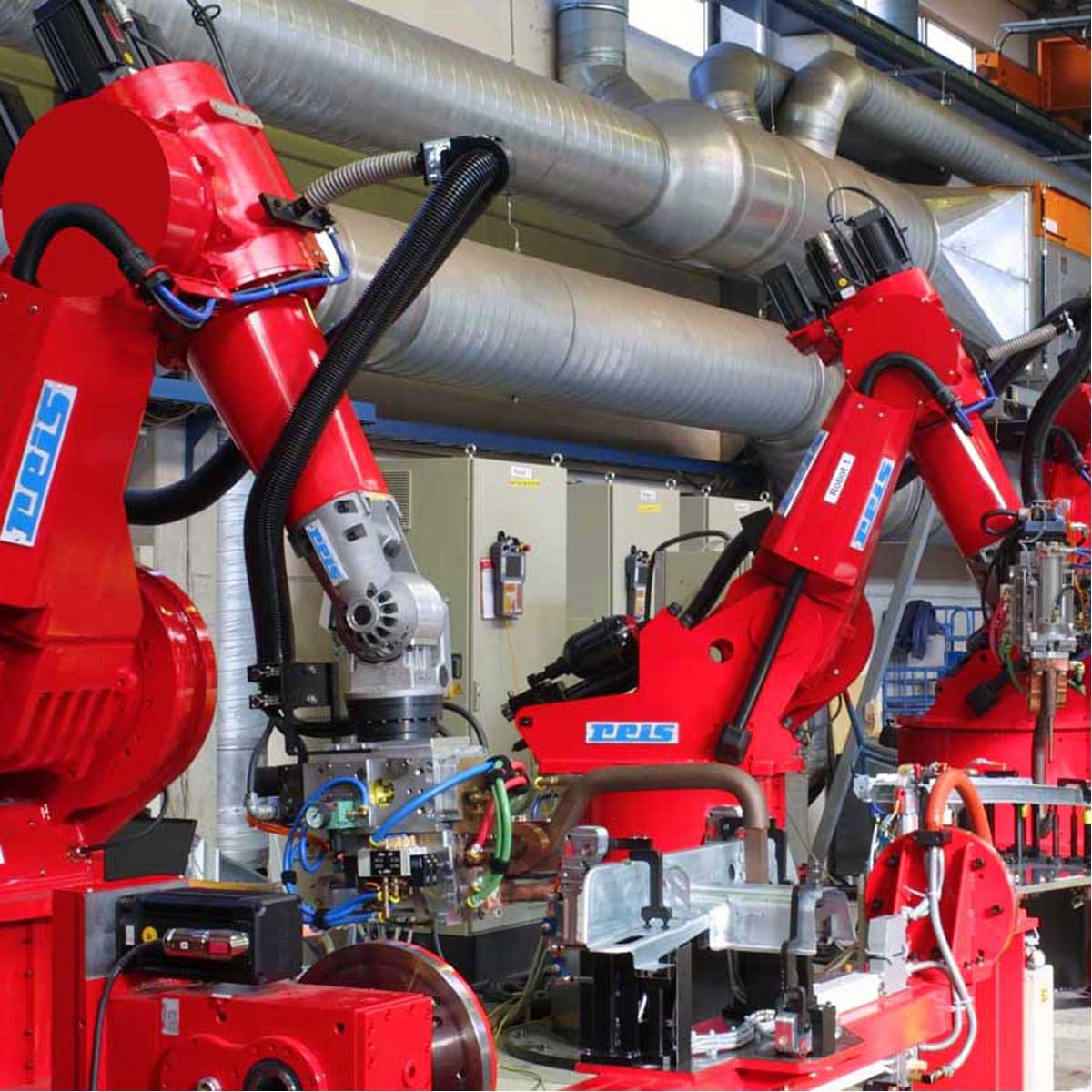 Welding